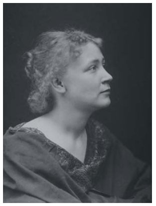 Boston Types--Miss H. Walter G. Chase. Boston Camera Club, Boston, Massachusetts. Digitized from a modern silver gelatin print from original platinum print.